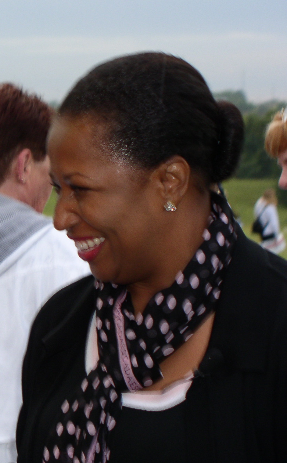 Carol Moseley Braun at the 2003 Harkin Steak Fry, Indianola, Iowa.